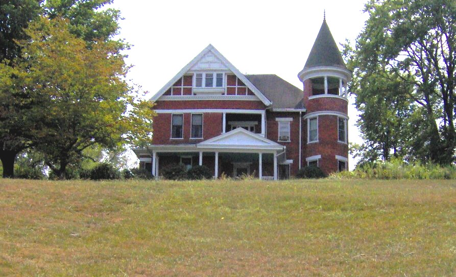 Elm Hill in Newport, Tennessee, built in 1890 by B.D. Jones and his wife Townszella Randolph. Jones' daughter Anna married future Tennessee governor Ben Hooper here in 1901, and the Hoopers used the house as a vacation home after the Jones' death. The house was restored by Hooper's daughter, Janella Hooper Carpenter, whose family owns it today. The house was added to the National Register of Historic Places in 1975.